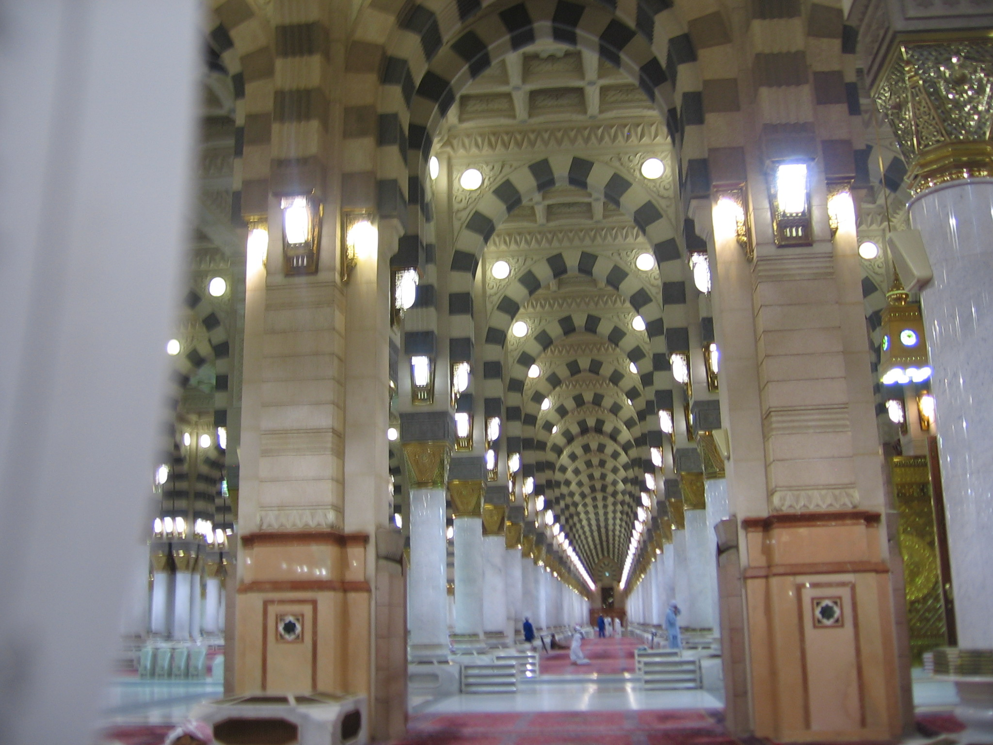 Al-Masjid al-Nabawi — in Medina, Saudi Arabia.